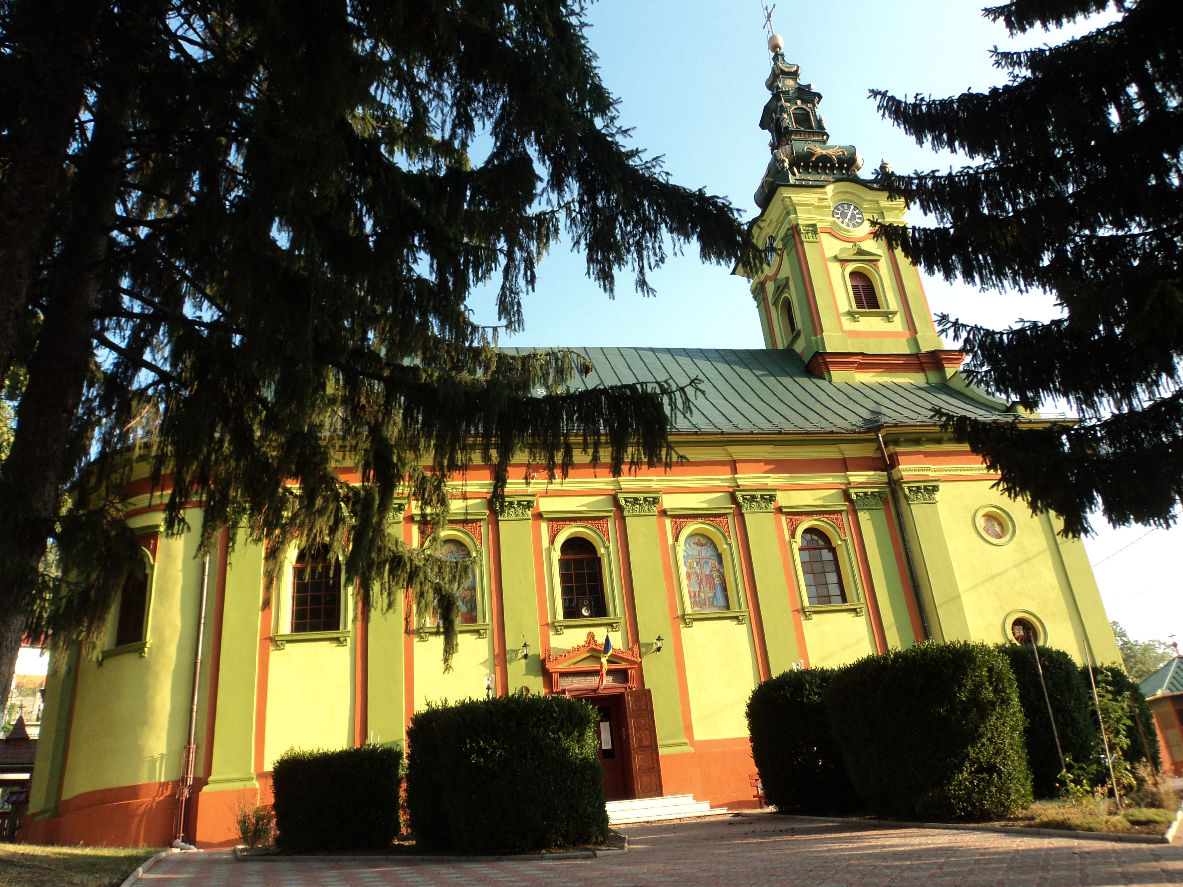 Orthodox Church "Adormirea Maicii Domnului" Oraviţa, Caraş-Severin County